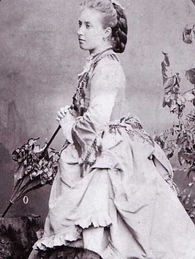 Princess Helena of the United Kingdom